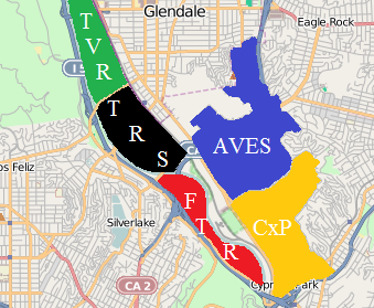 A map showing NELA's gangland borders.